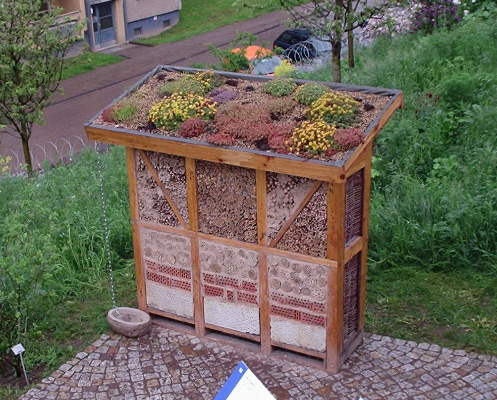 A insect hotel in the city of Nordhausen, at the garden exhibition in 2004.